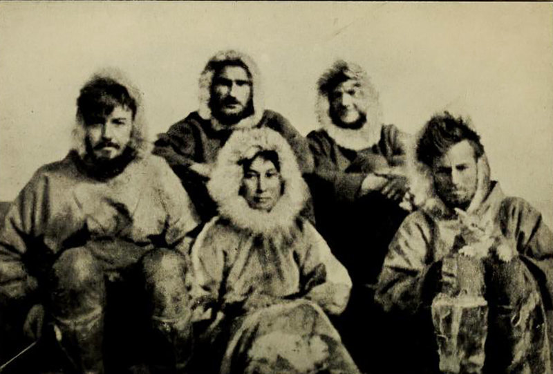 The 1921 Wrangel Island Expedition team: Ada Blackjack, Allan Crawford, Lorne Knight, Fred Maurer, Milton Galle, and Victoria the cat.